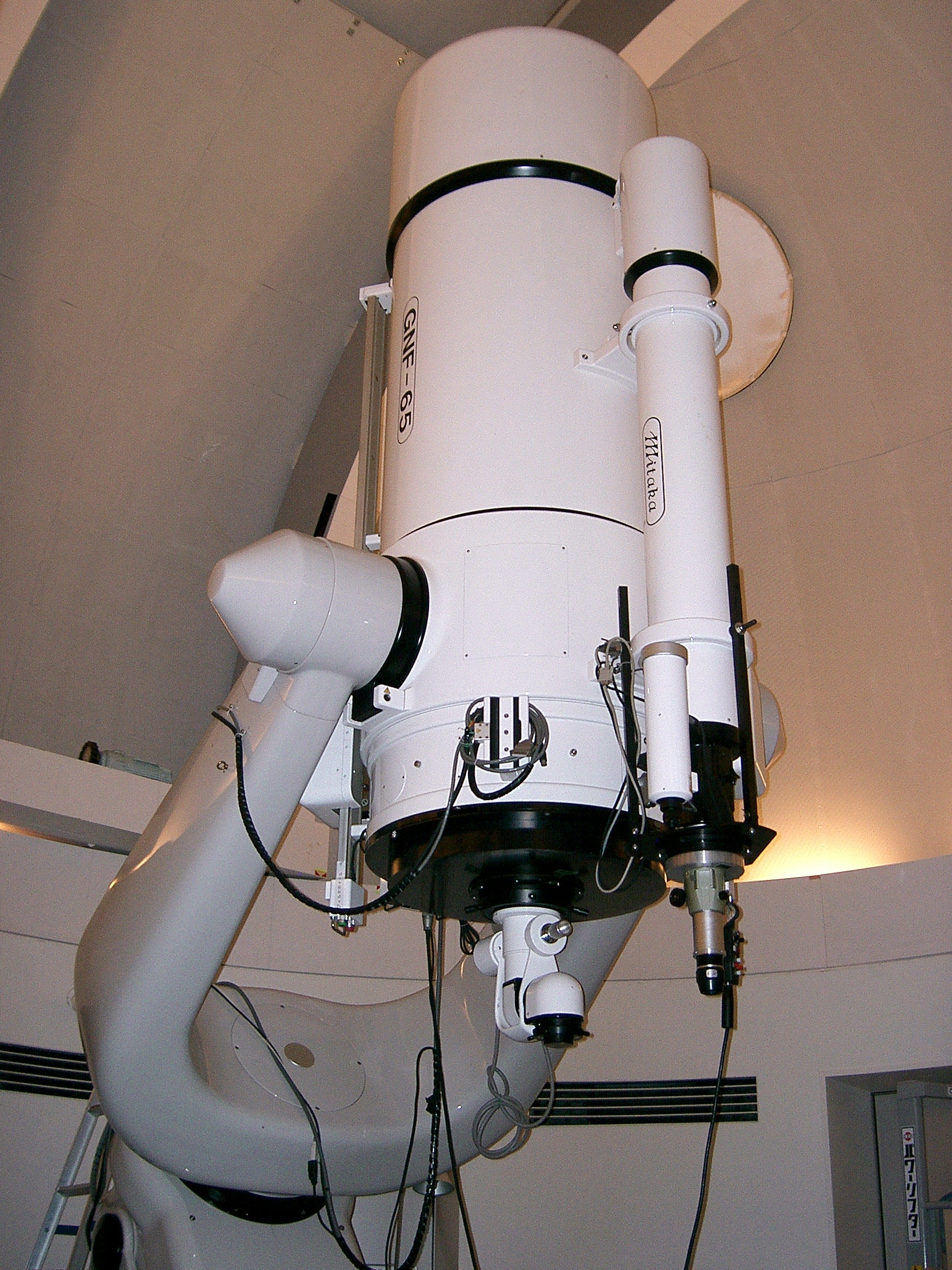 65-centimeter reflecting telescope in 7-meter dome of Gunma Astronomical Observatory (GAO)